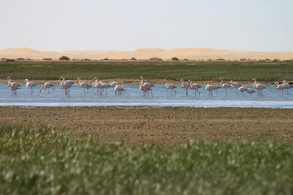 Flamingo in the "Khenifiss National Park" near Tarfaya, Morocco.